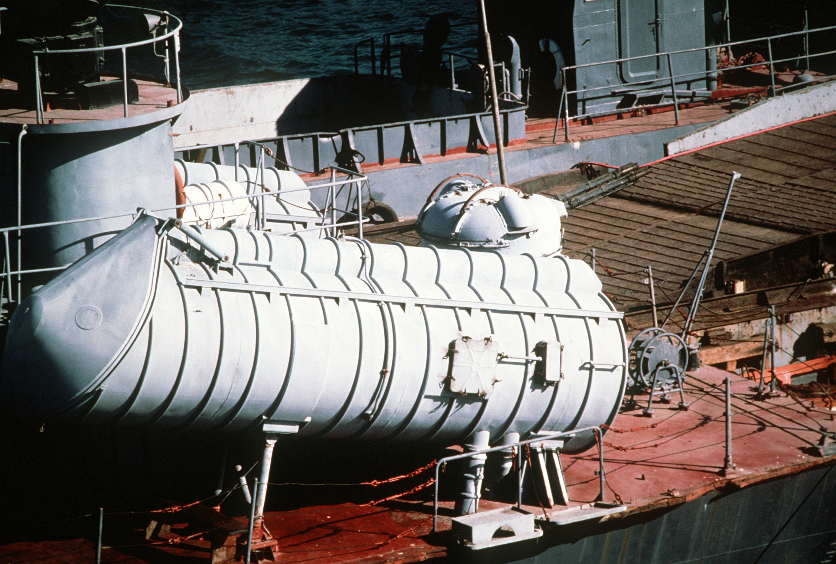 A view of a surface-to-surface missile launcher KT-97M on a Soviet-built Osa II Class fast attack craft.